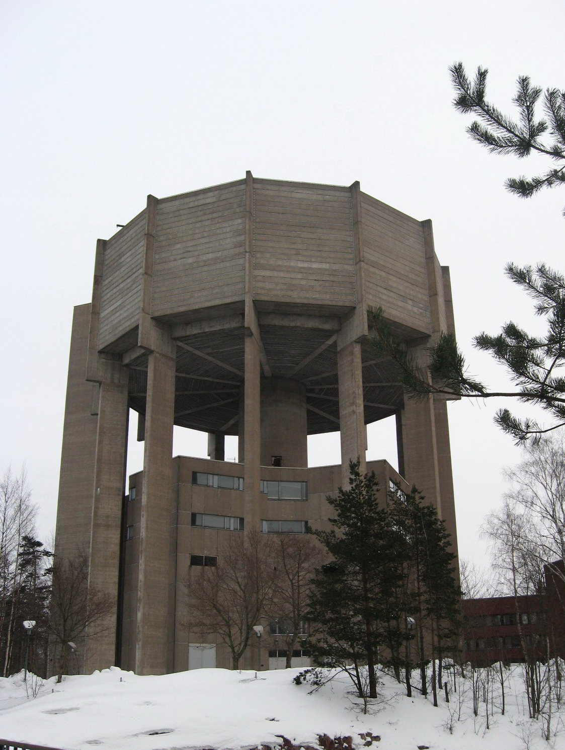 Otaniemi water tower, Espoo, Finland. Built in 1971. Achitect Alvar Aalto. Capacity 6,000 m3